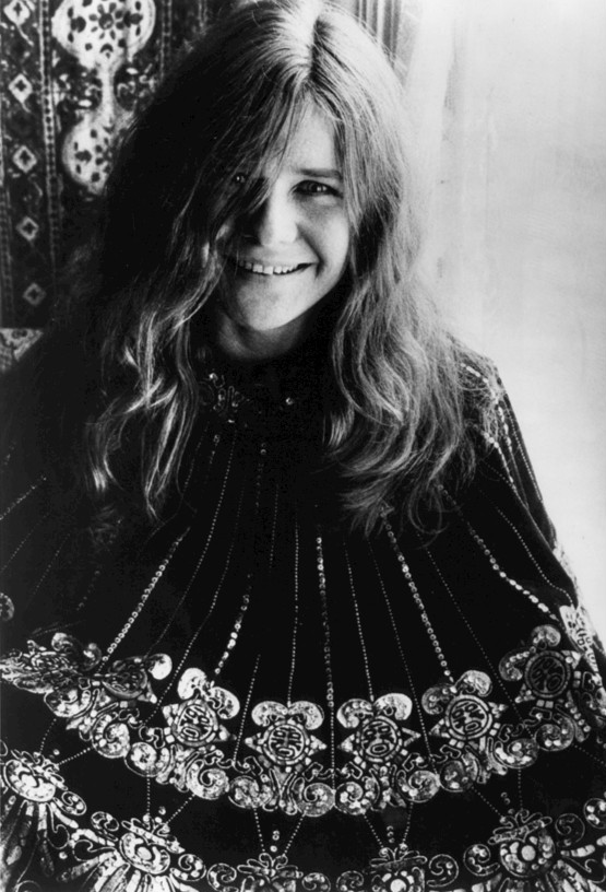 Publicity photo of Janis Joplin.